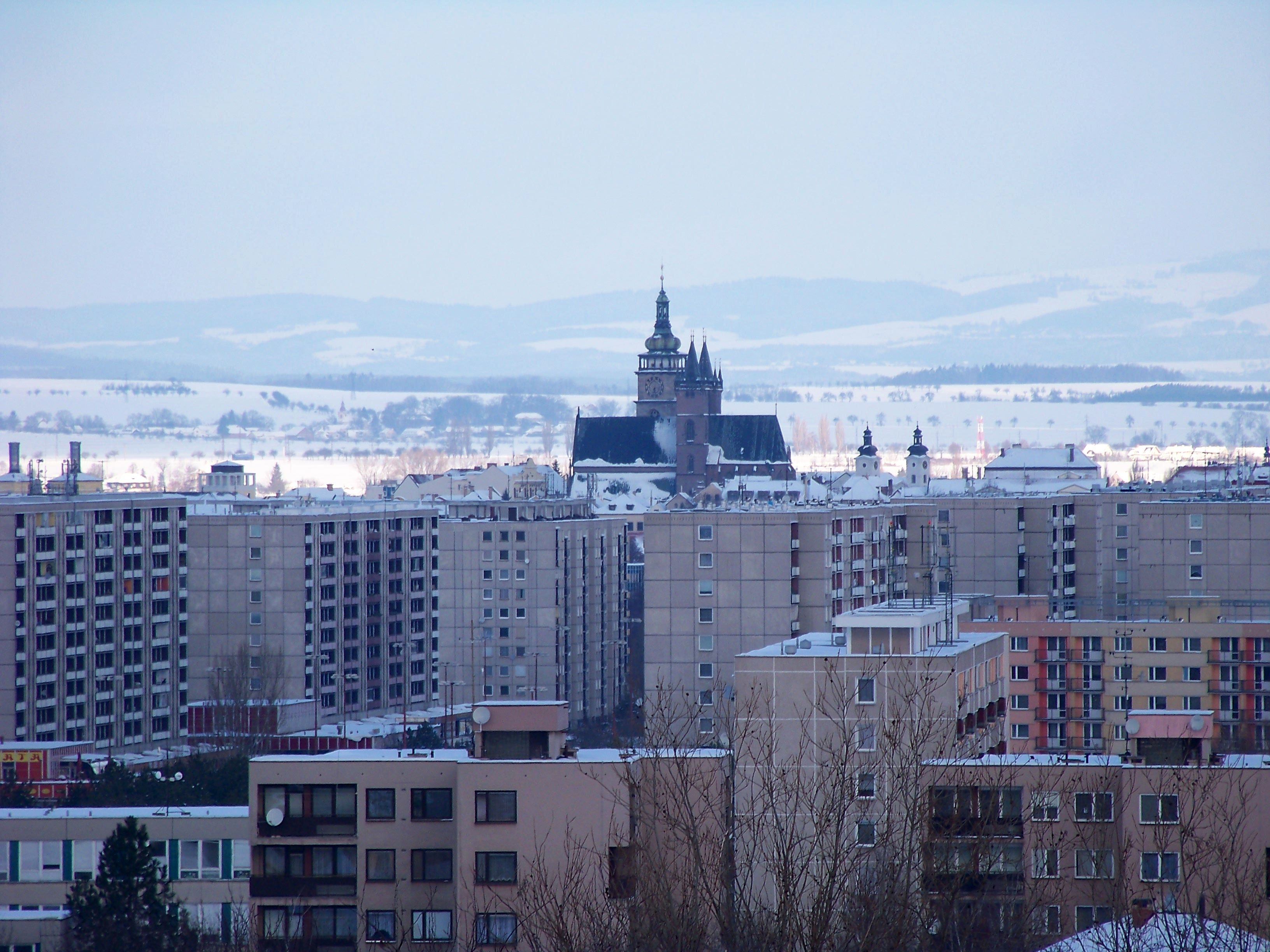 Hradec Králové-Třebeš and Nový Hradec Králové, the Czech Republic. A view of Hradec Králové City from Husova Street. - Google Maps - Google Earth